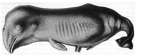 embryo of harbour porpoise